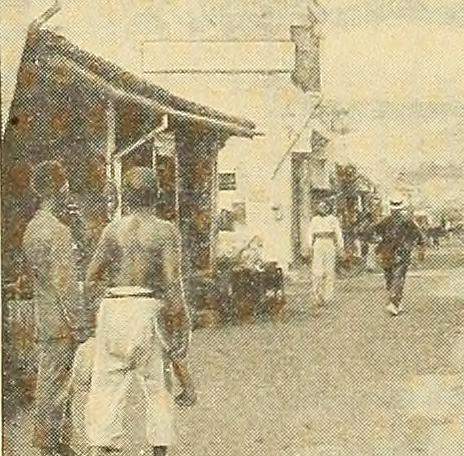 Identifier: popularelectric619131chic Title: Popular electricity magazine in plain English Year: 1912 (1910s) Authors: Subjects: Electricity Publisher: Chicago, Ill. : Popular Electricity Pub. Co. Text Appearing Before Image: Text Appearing After Image: fk Malacca Business Street MALAYS ENJOY LIGHTS We are indebted to Mr. P. M. Robin-son, an electrical engineer in Singapore,for the description and pictures of the firstelectric light and power plant installed inMalay Peninsula. It serves the town ofMalacca which though small is now grow-ing rapidly on account of the rubber in-dustry. The site of the plant was originally acoconut plantation. One of the first pre-cautions taken was to secure a substantialfoundation and to do this it was neces-sary to use a good deal of piling on ac-count of the nature of the soil. The roofs of some of the buildings are ofconcrete and as a consequence their in-terior is quite cool even in the hottestweather. Metal filament lamps are usedto light the plant which is capable of fur-nishing 87 horsepower and while thisseems small by comparison with thelarger city plants of this country it isample at present for the needs of Malacca. The current is distributed over a threewire system of bare copper wire carri